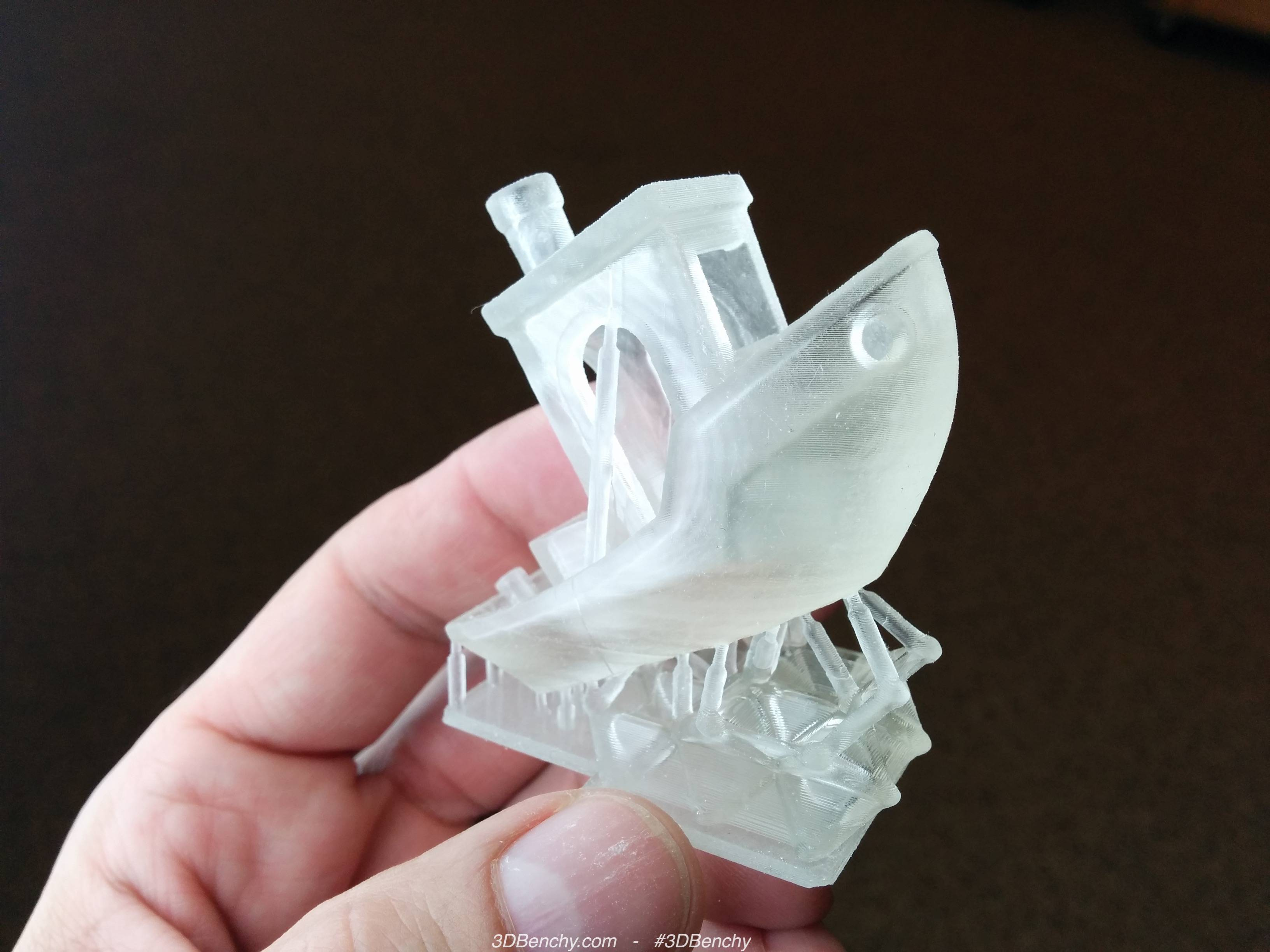 3DBenchy printed on a resin printer